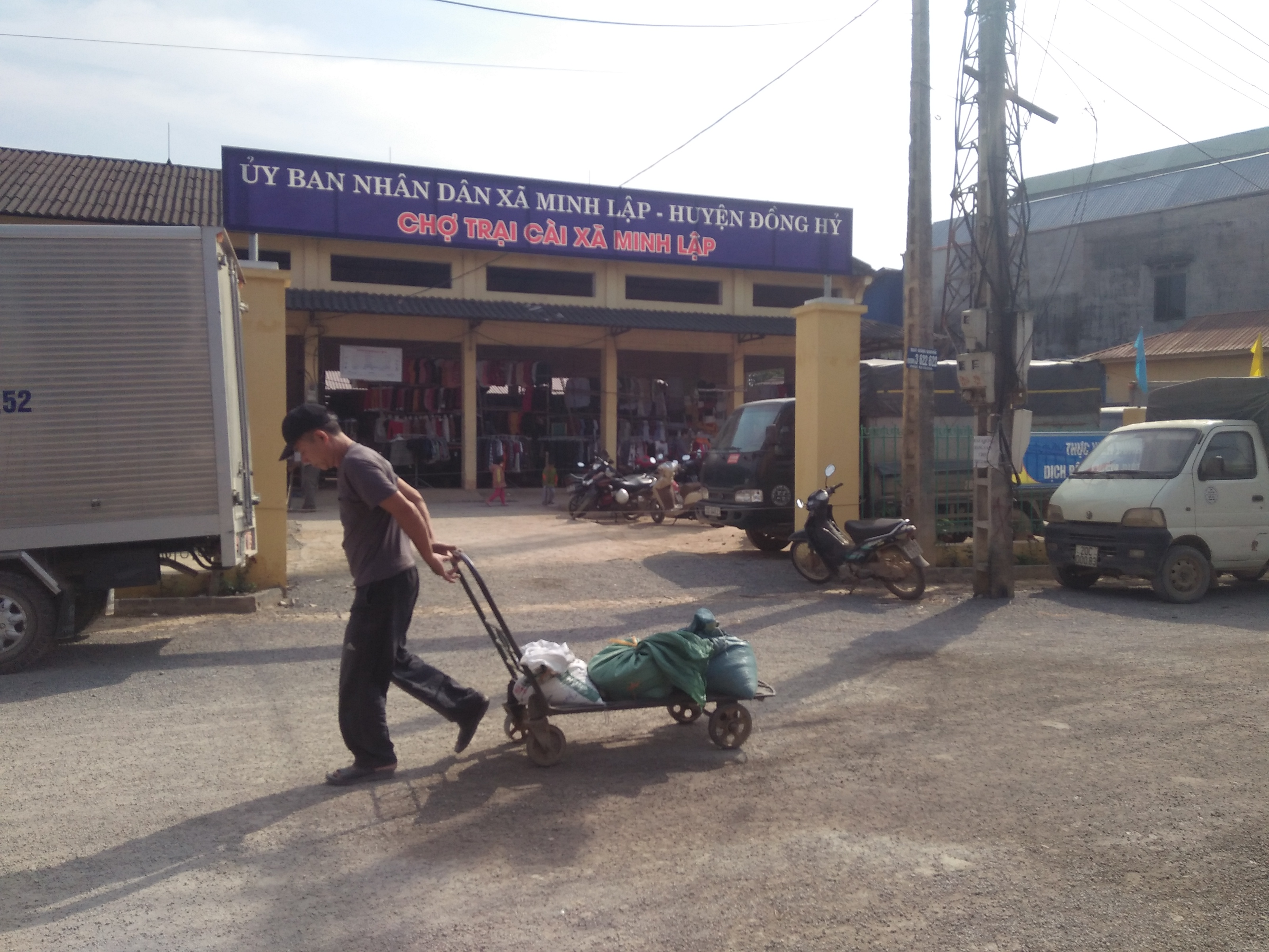 Chợ Trại Cài